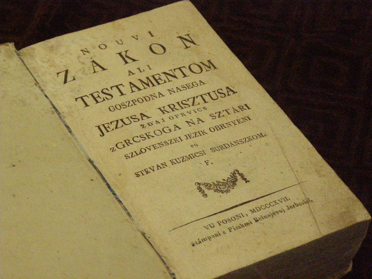 The Nouvi Zákon (New Testament) in 1817